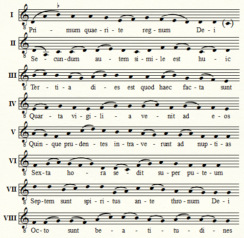 Melodic formulae of 8 church modes (10th c.), transcribed